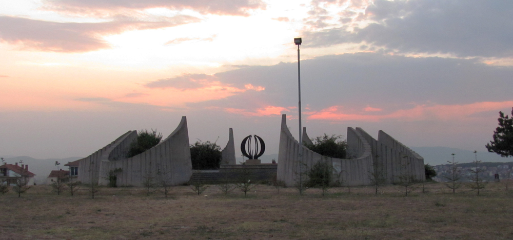 National Martyr's Monument near Velania district, Pristina